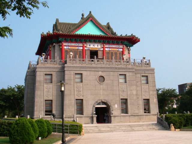 Juguang Tower ("Brightness of Ju") Taken by (WT-shared) Shoestring in September, 2009 (own work) Location: Kinmen